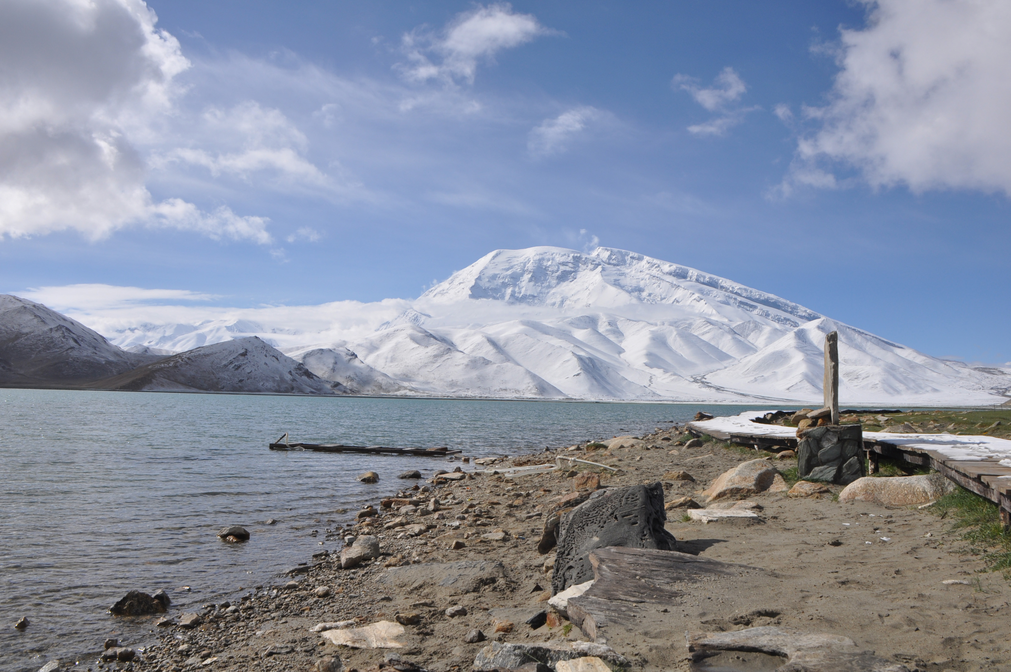 Karakul Lake and Muztag Ata Mountain, Xinjiang, China